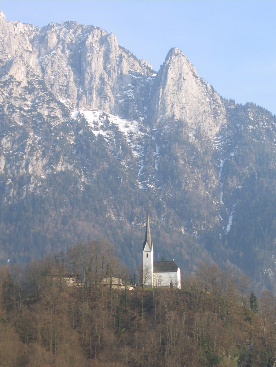 Ebbs, Sanctuary of St Nicholas as seen from north with the Naunspitze in background.